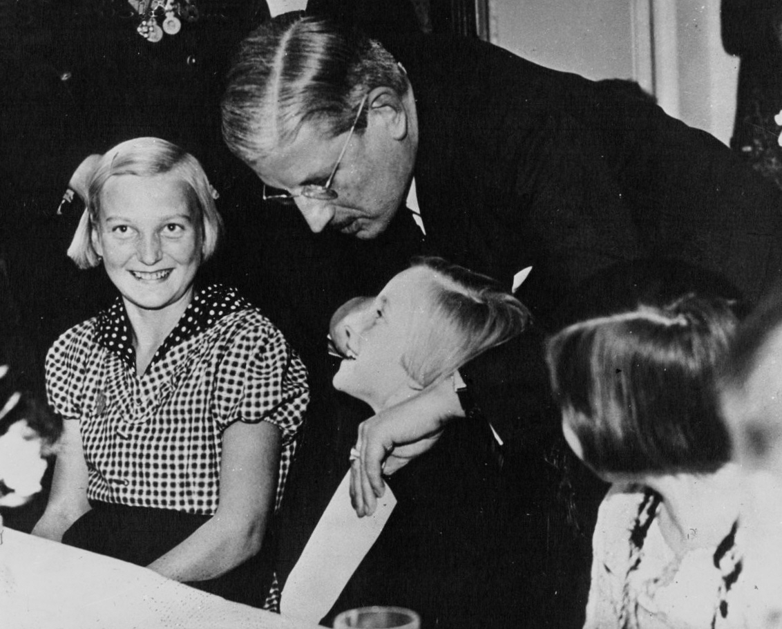 Austrian Chancellor Kurt Schuschnigg (1897-1977) receiving children from the provinces in 1936.